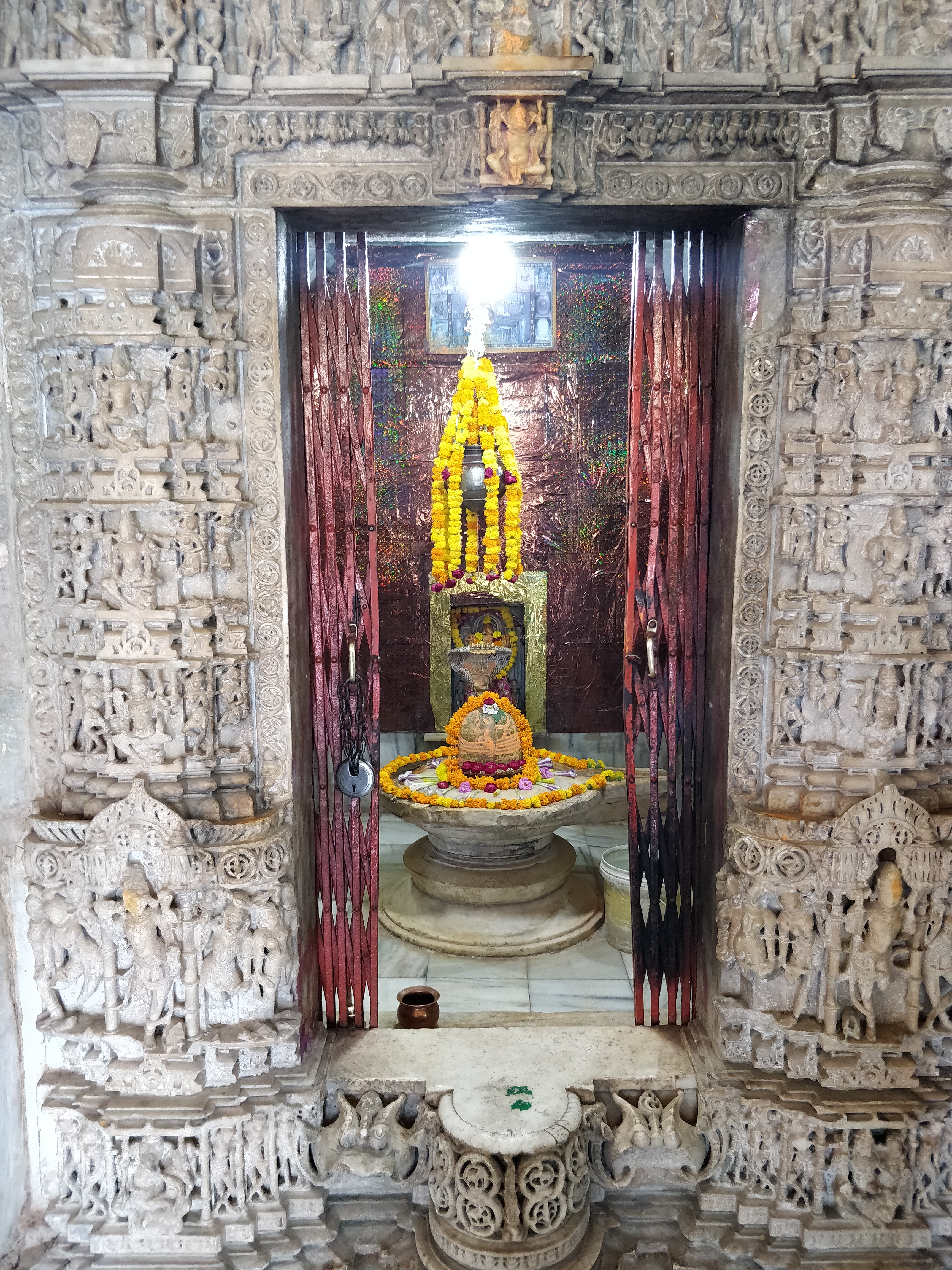 Kumbharia Mahadev Temple, Inner Sanctum, Shivlinga.